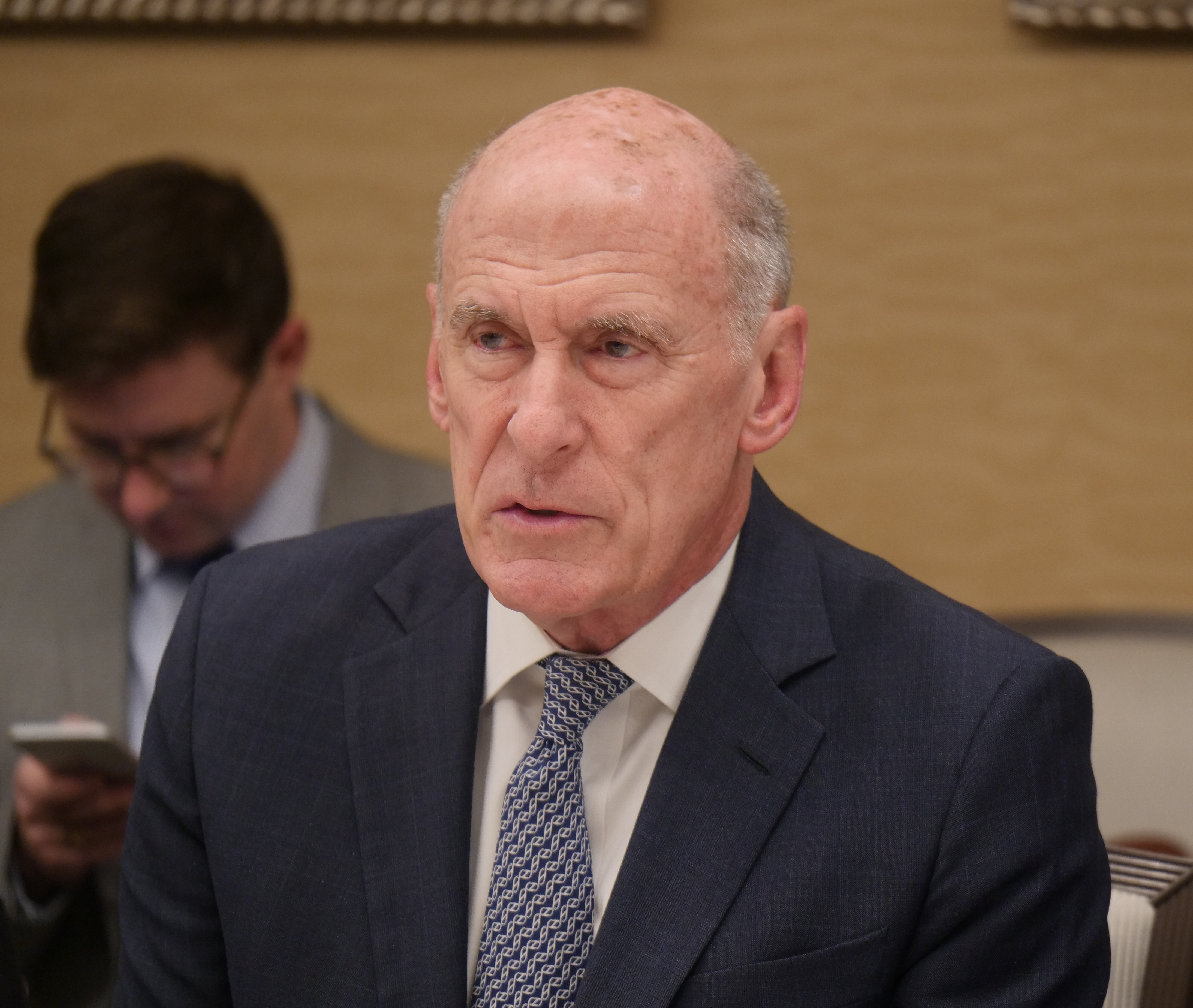 Director of National Intelligence Dan Coats met with journalists from the Defense Writers Group, an association of news outlets with reporters that cover national security issues, at the Fairmont Hotel on Wednesday, April 4, 2018. The Defense Writers Group is housed at the George Washington University's School of Media and Public Affairs under the Project for Media and National Security.